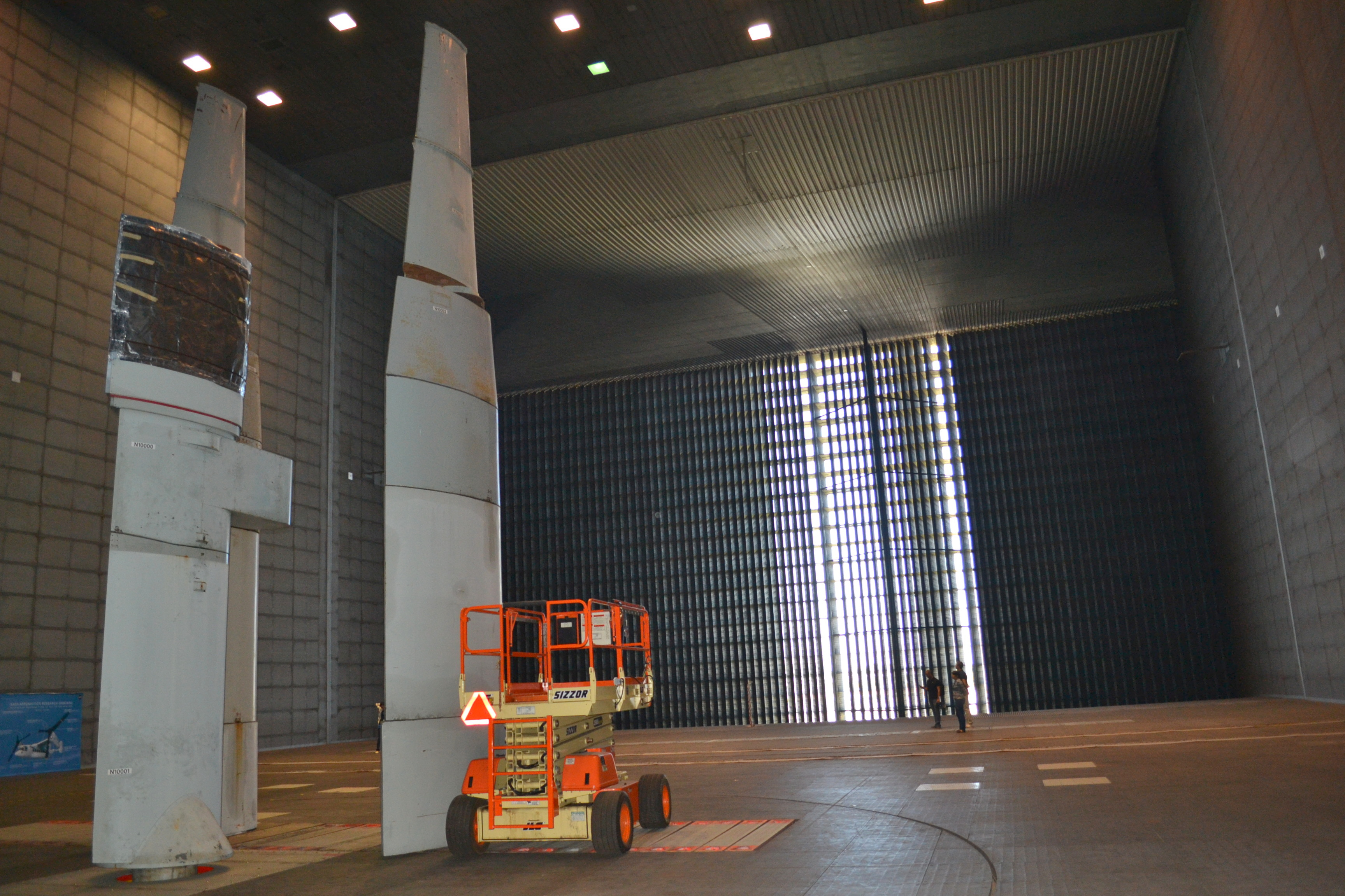 Inside the 80 by 120 foot wind tunnel at NASA Ames in Moffett Field, California. This is the largest wind tunnel in the world.